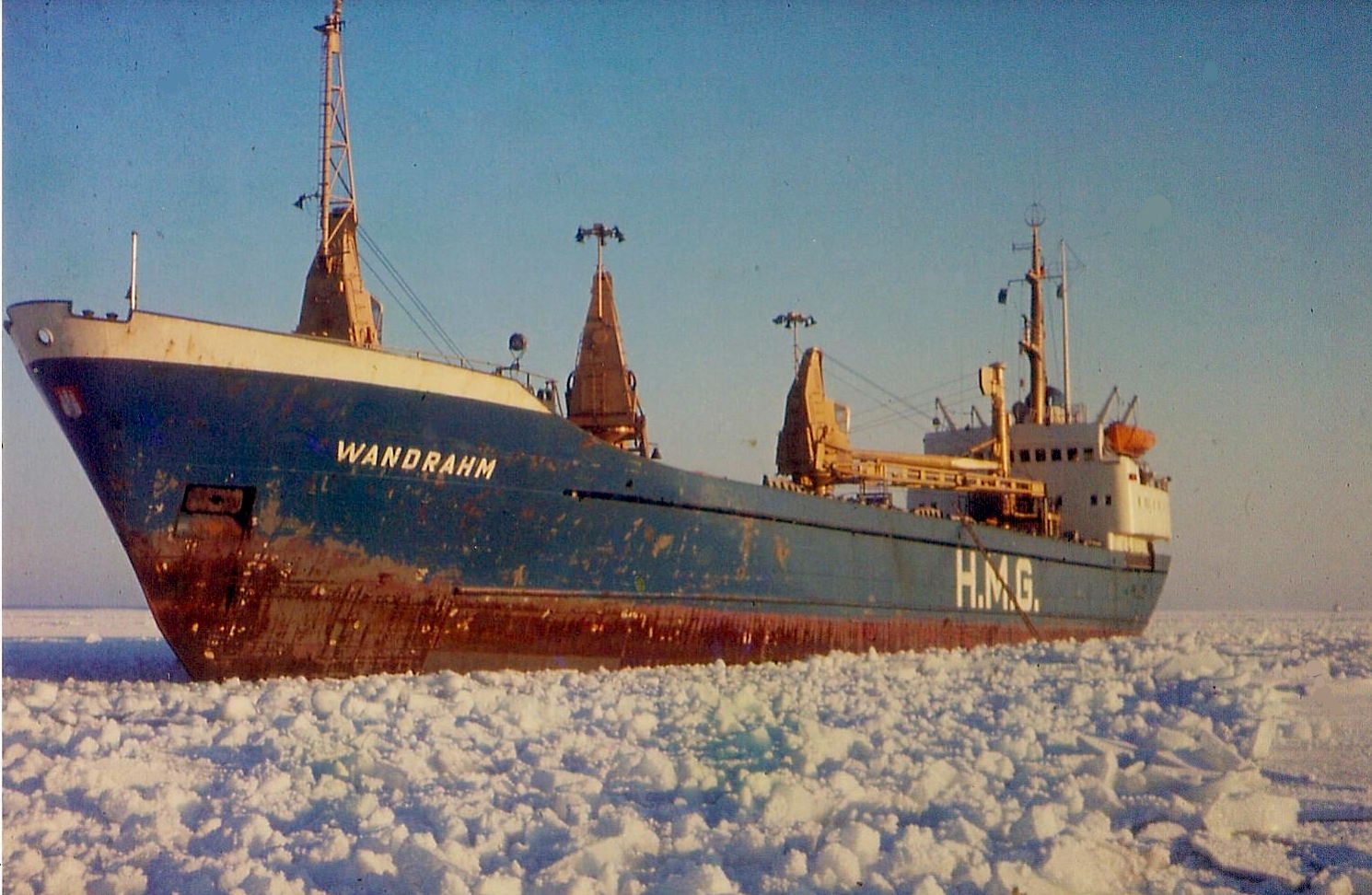 Motor ship Wandrahm of the Hamburg shipping company H. M. Gehrckens - ice navigation in the Baltic Sea